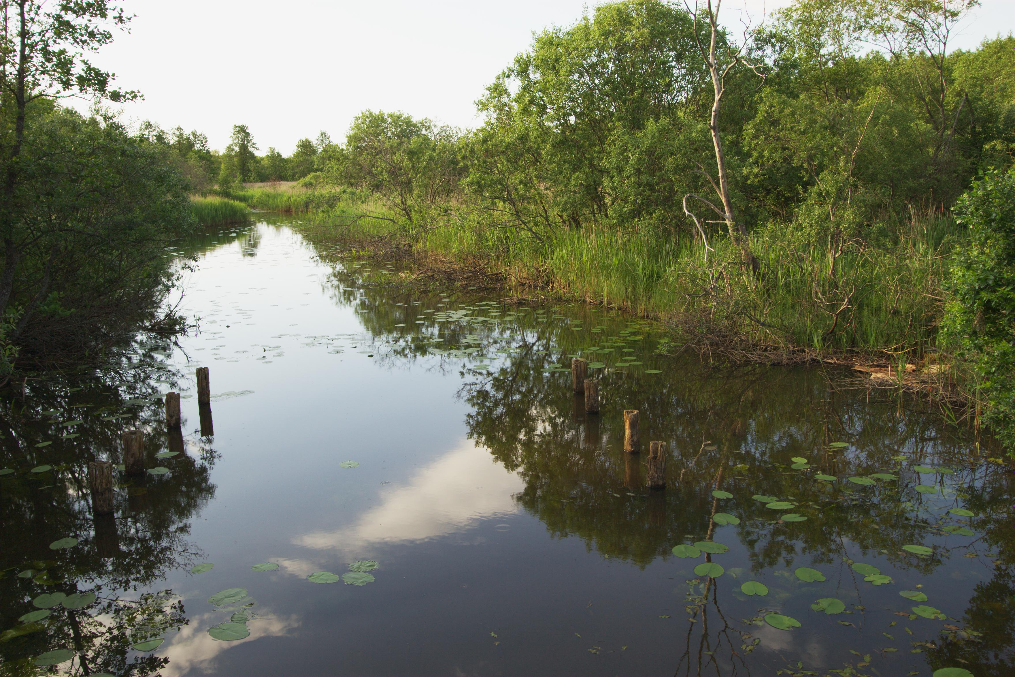 Soodla river in Estonia. View northwards, taken from the footbridge